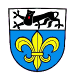 Coat of Arms of Sonderhofen